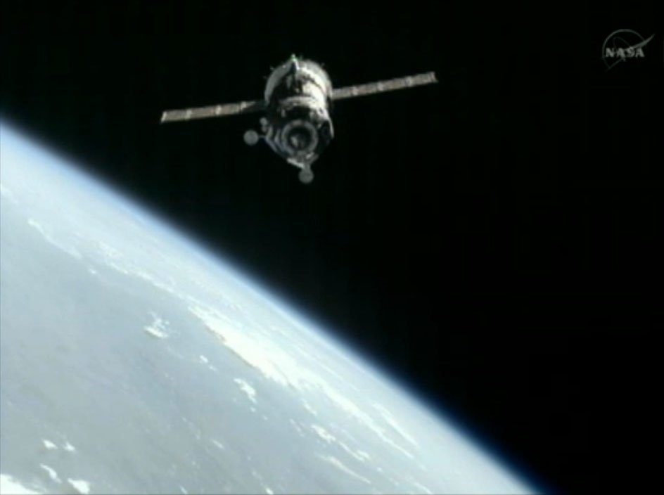 The Soyuz TMA-05M spacecraft approaches the International Space Station for docking on 17 July 2012